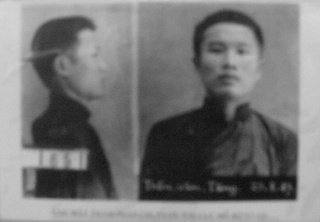 Trần Văn Tăng (a.k.a Cả Tăng), member of New Revolutionary Party of Vietnam (Tân Việt Cách mạng Đảng). Jailed 2 years by French. He is the eldest brother of Trần Văn Cung, Trần Văn Quang.